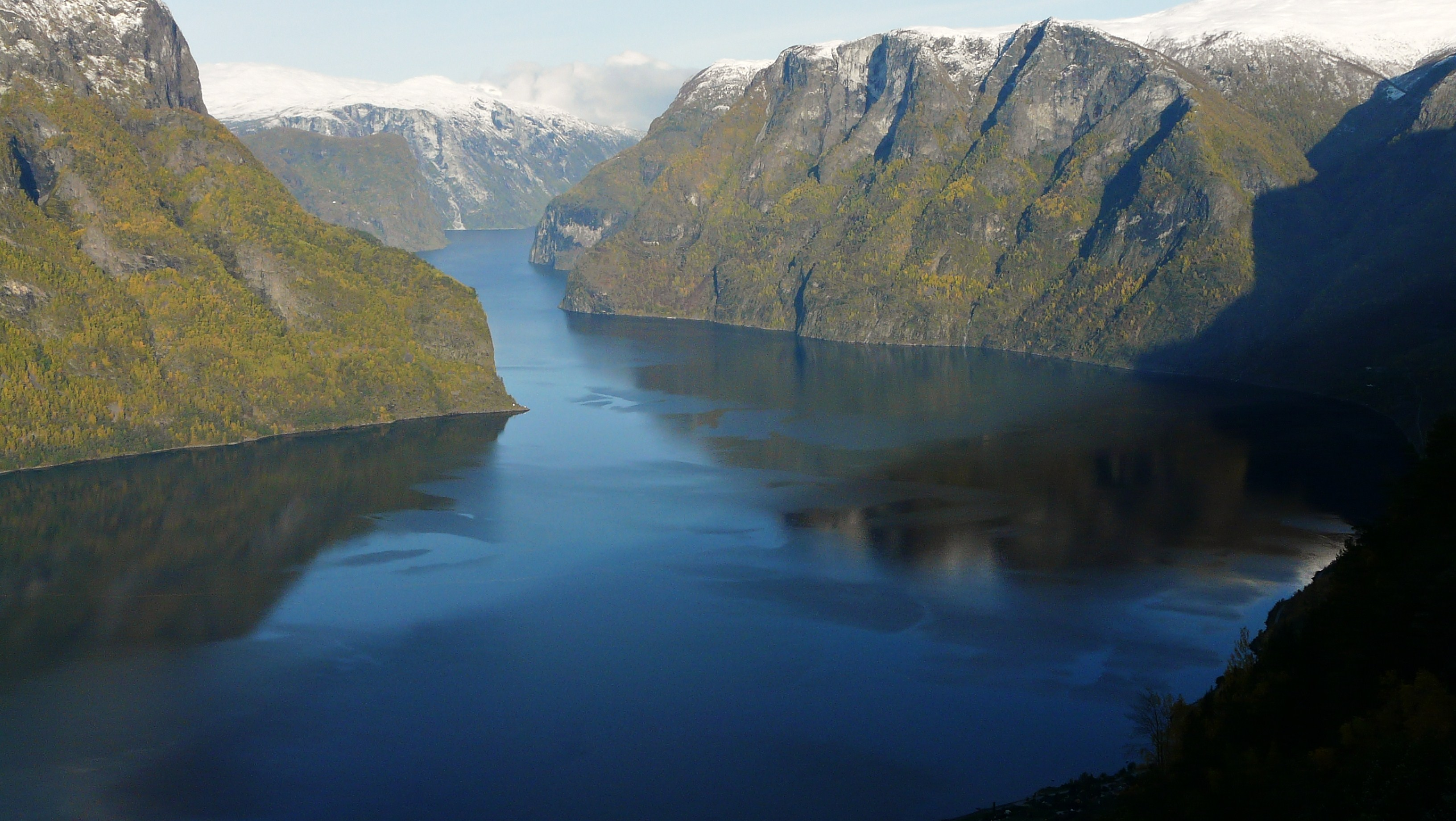 Aurlandsfjorden as seen from by the Fylkesvei 243 coming down to Aurlandsvangen in 2009 October.